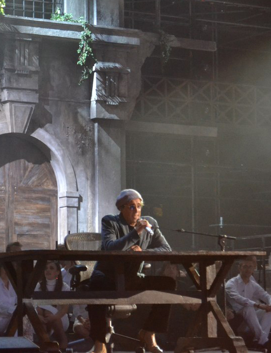 Adriano Celentano. Live in VERONA